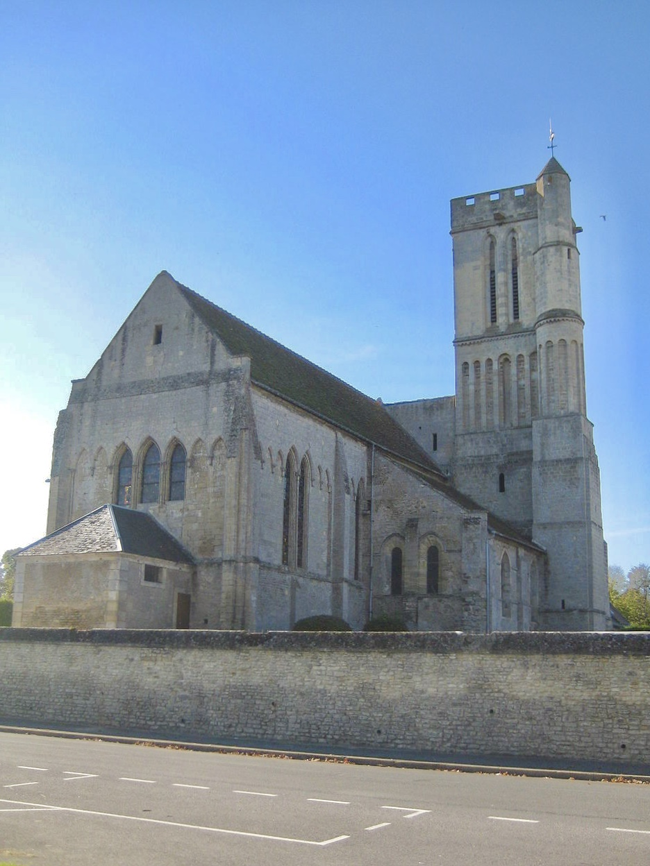 Church of Hermanville-sur-Mer, Calvados, France